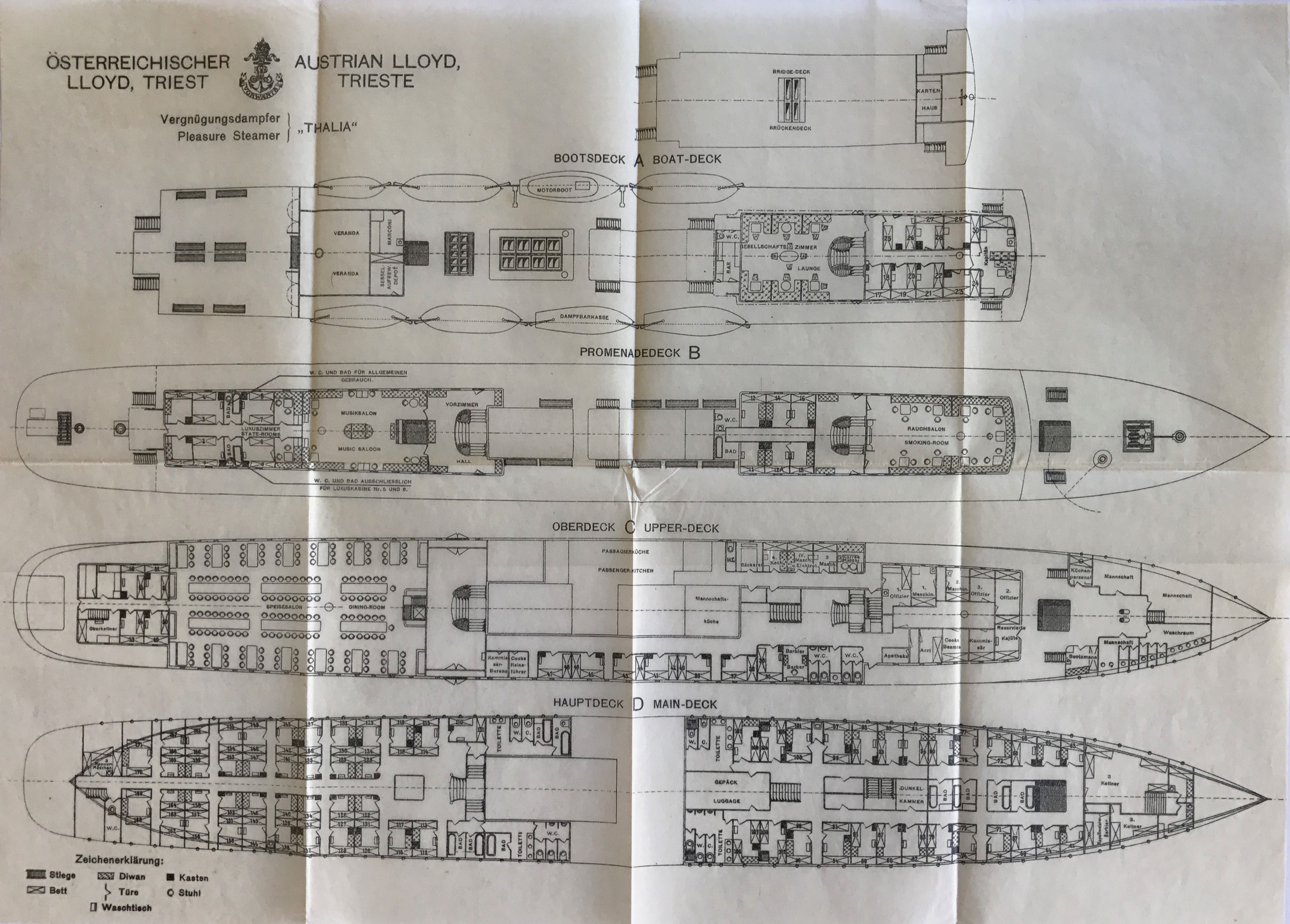 Deck plan of SS Thalia (Astrian Lloyd) of 1914 according to a advertising brochure for the trips of SS Thalia in 1st half year of 1914 (unknown designer)